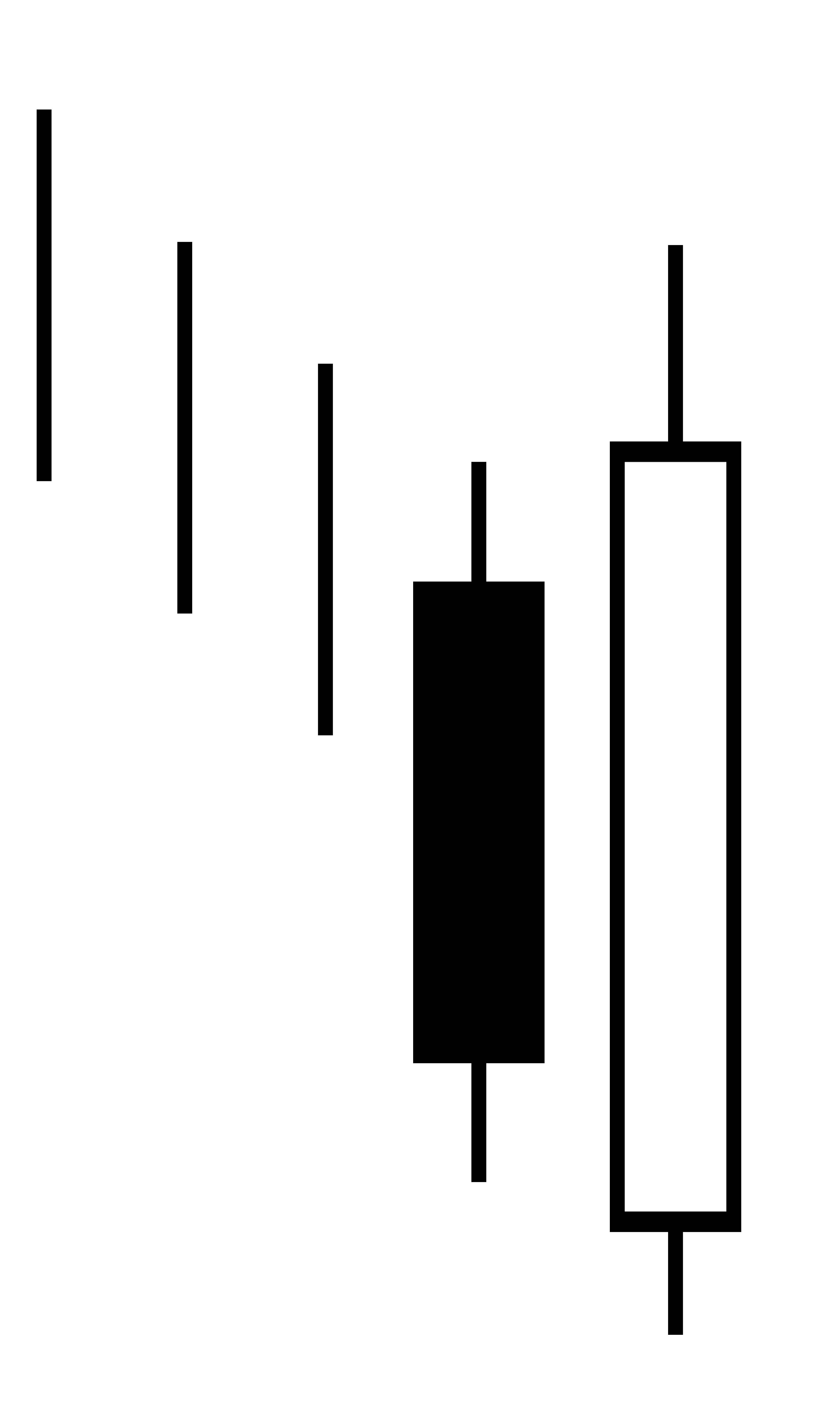 Bullish engulfing